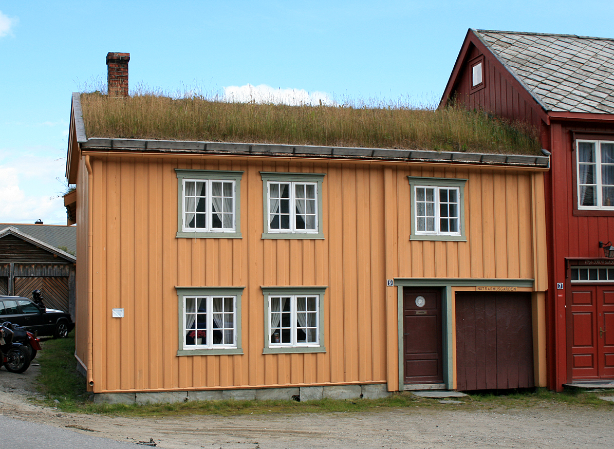 Rasmusgården, Bergmannsgata 9, Røros. Problably from the 1680s. Protected by law 1940.